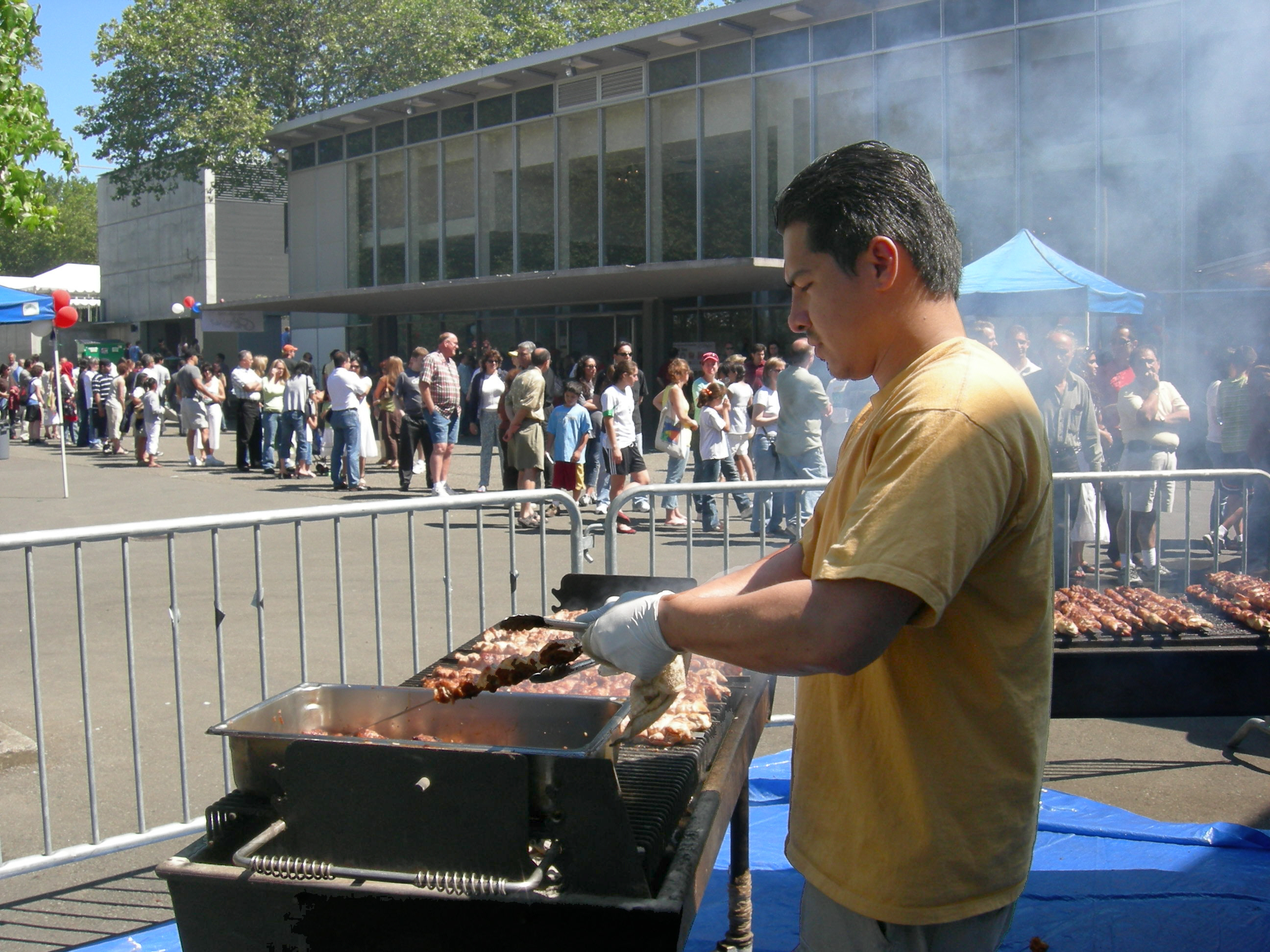 Grilling meat, Iranian Festival, Seattle Center, Seattle, Washington. The Seattle Center Pavilion, where most of the festival took place, can be seen in the background; in background at left is a corner of the Fisher Pavilion.